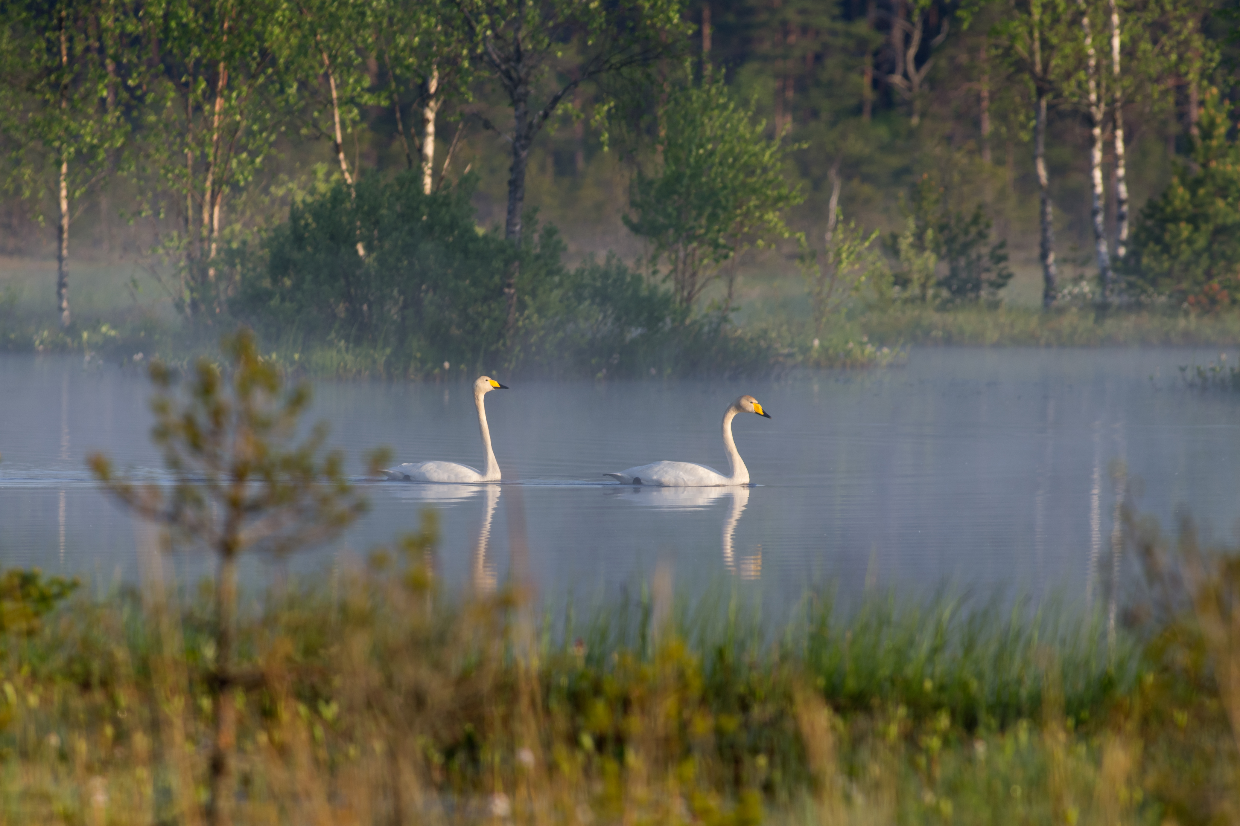 Orkjärve Nature conservation area in Estonia. Lake Laanemaa. Cygnus cygnus.